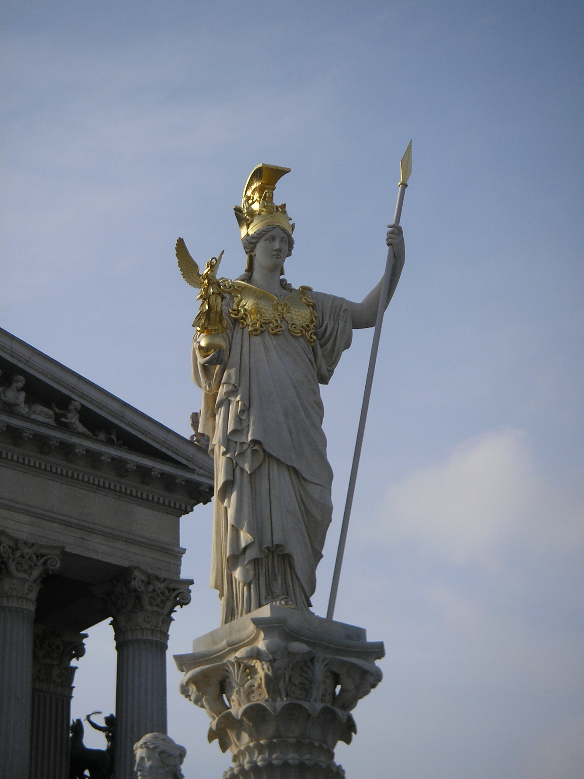 Description: View of the statue of Athena in front of the Parliament building in Vienna. Source: self-made, I release it into the public domain. Gryffindor 23:28, 23 March 2006 (UTC)